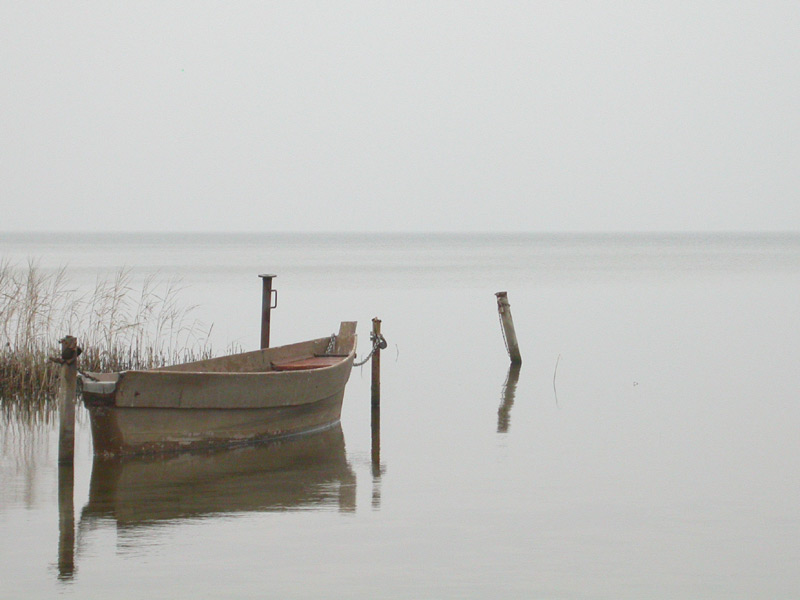 Lake Pleshcheyevo